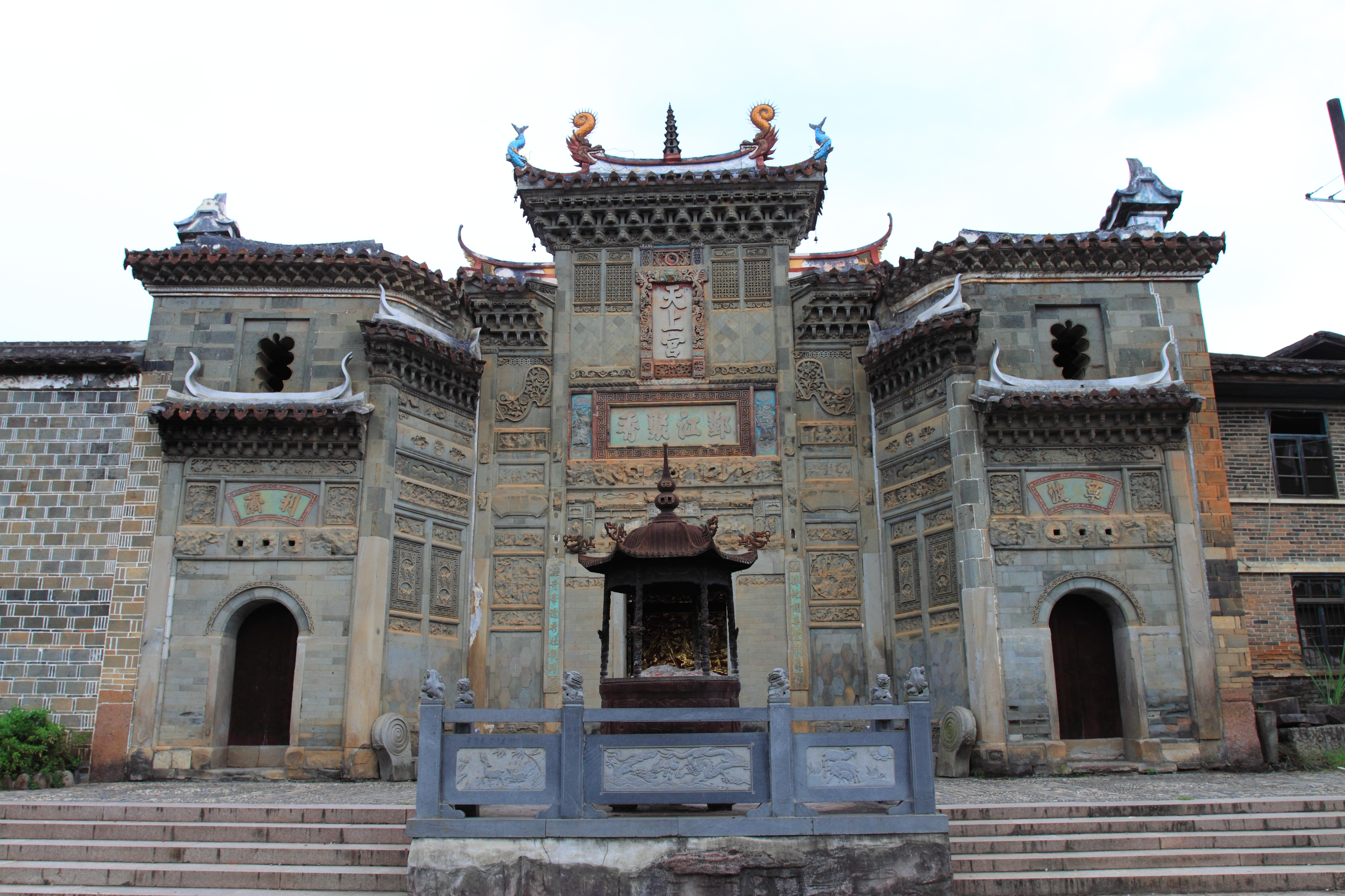 Tianshang Gong (Tianshang Temple), in Xingcun, Wuyishan City, Fujian, China.